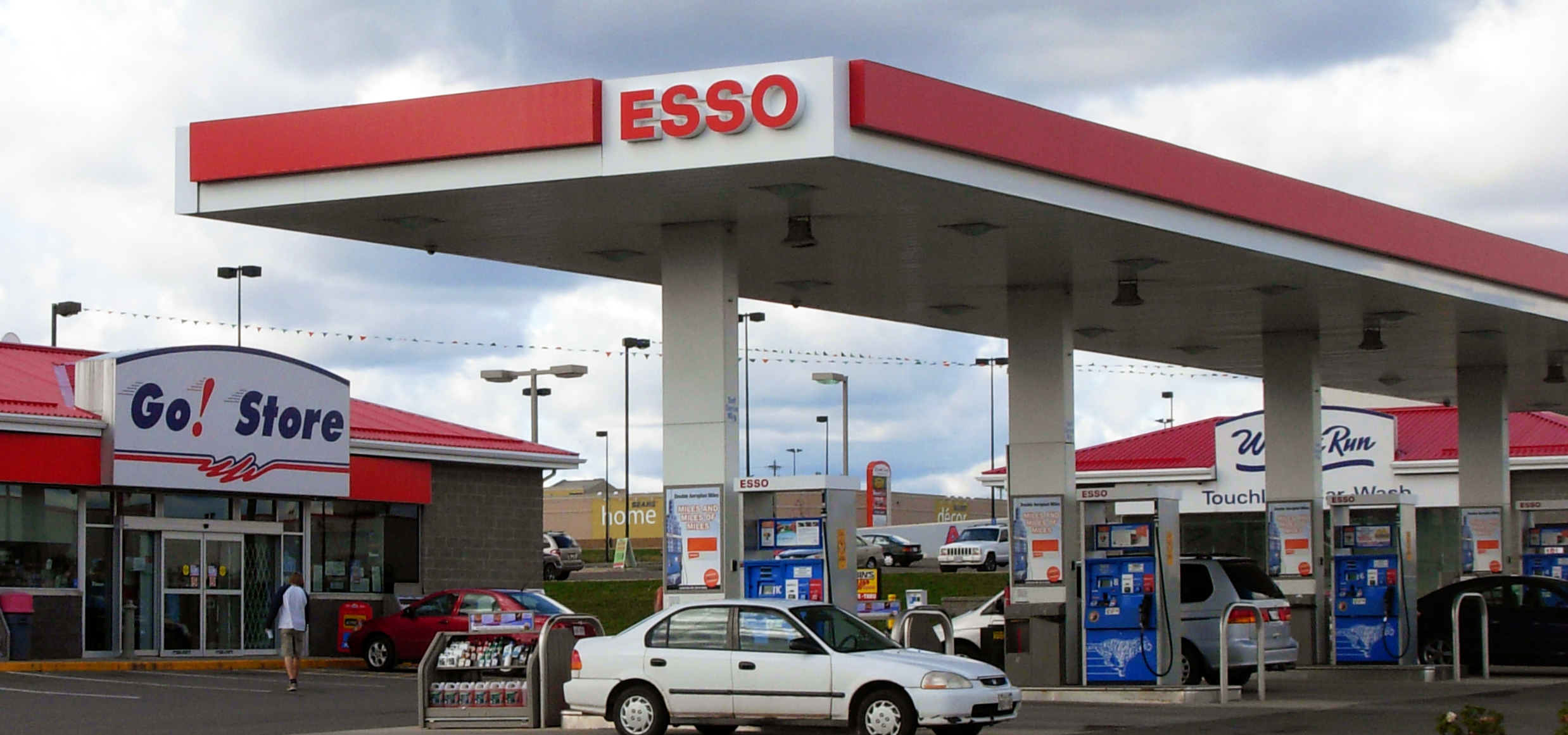 An Esso location in Moncton